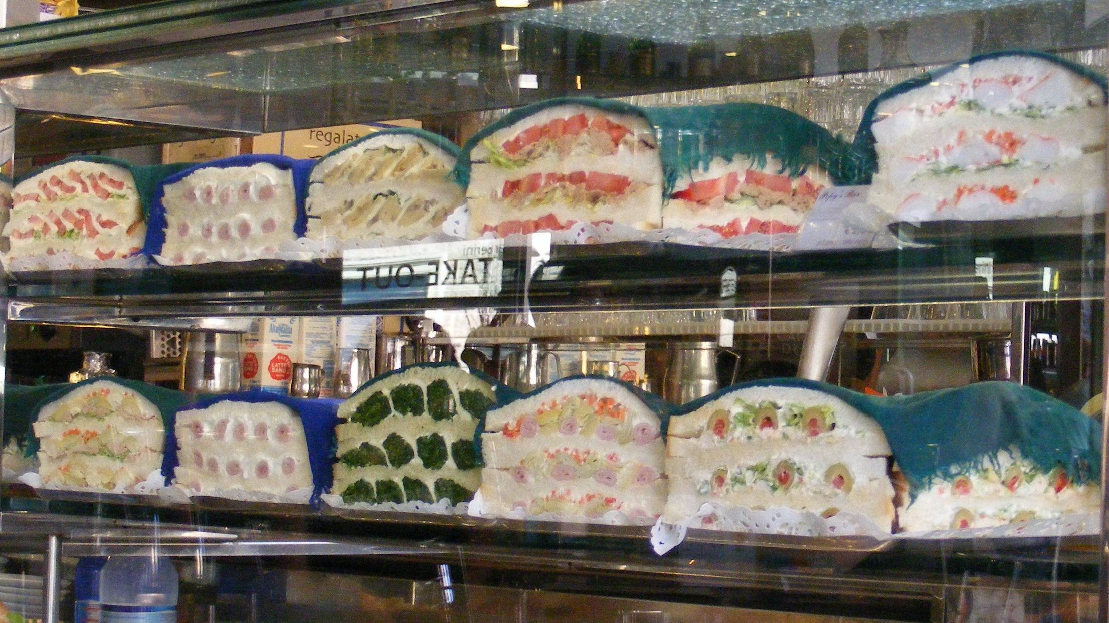 Italian sandwiches.